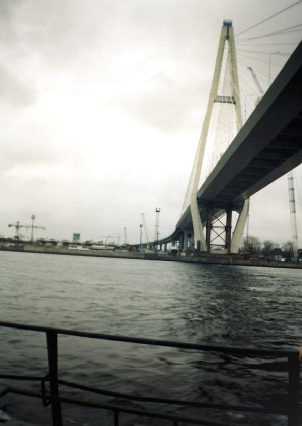 View on Big Obuchovsky Bridge in Saint-Petersburg, Russie